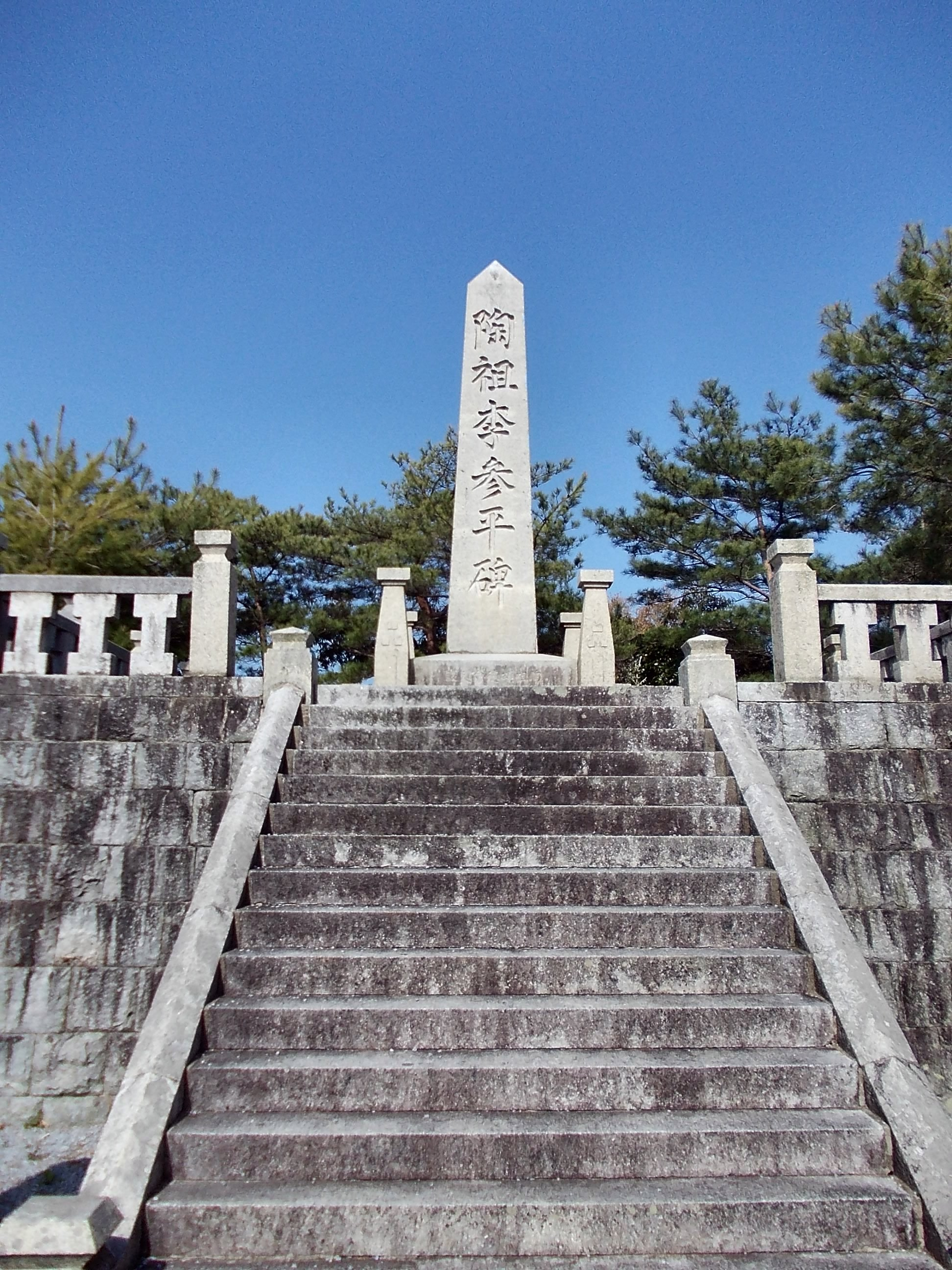 Yi Sam-pyeong Monument, Arita, Saga, Japan